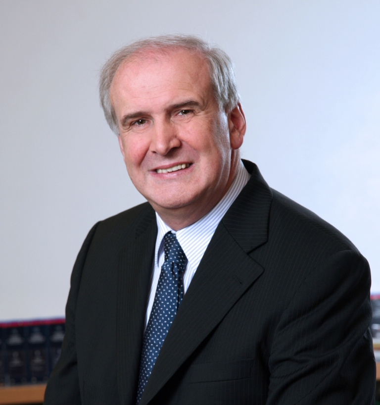 Otmar Hasler was the head of government of the principality of Liechtenstein from 2001 to 2009.